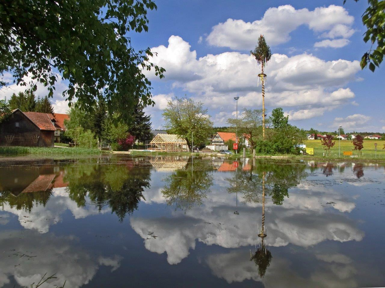 Zang Pond 2013